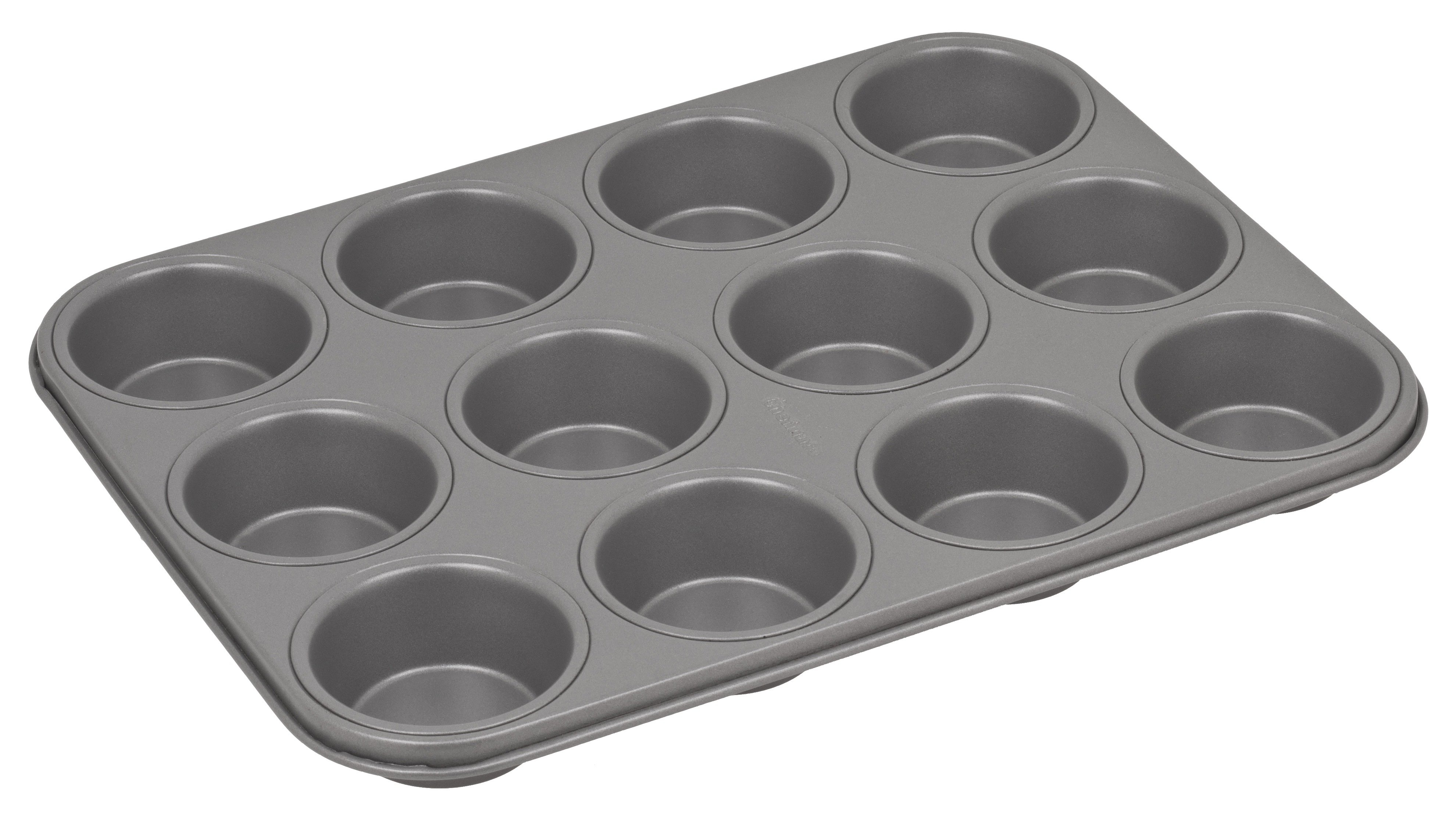 A tin with large divets in it, for making cupcakes.